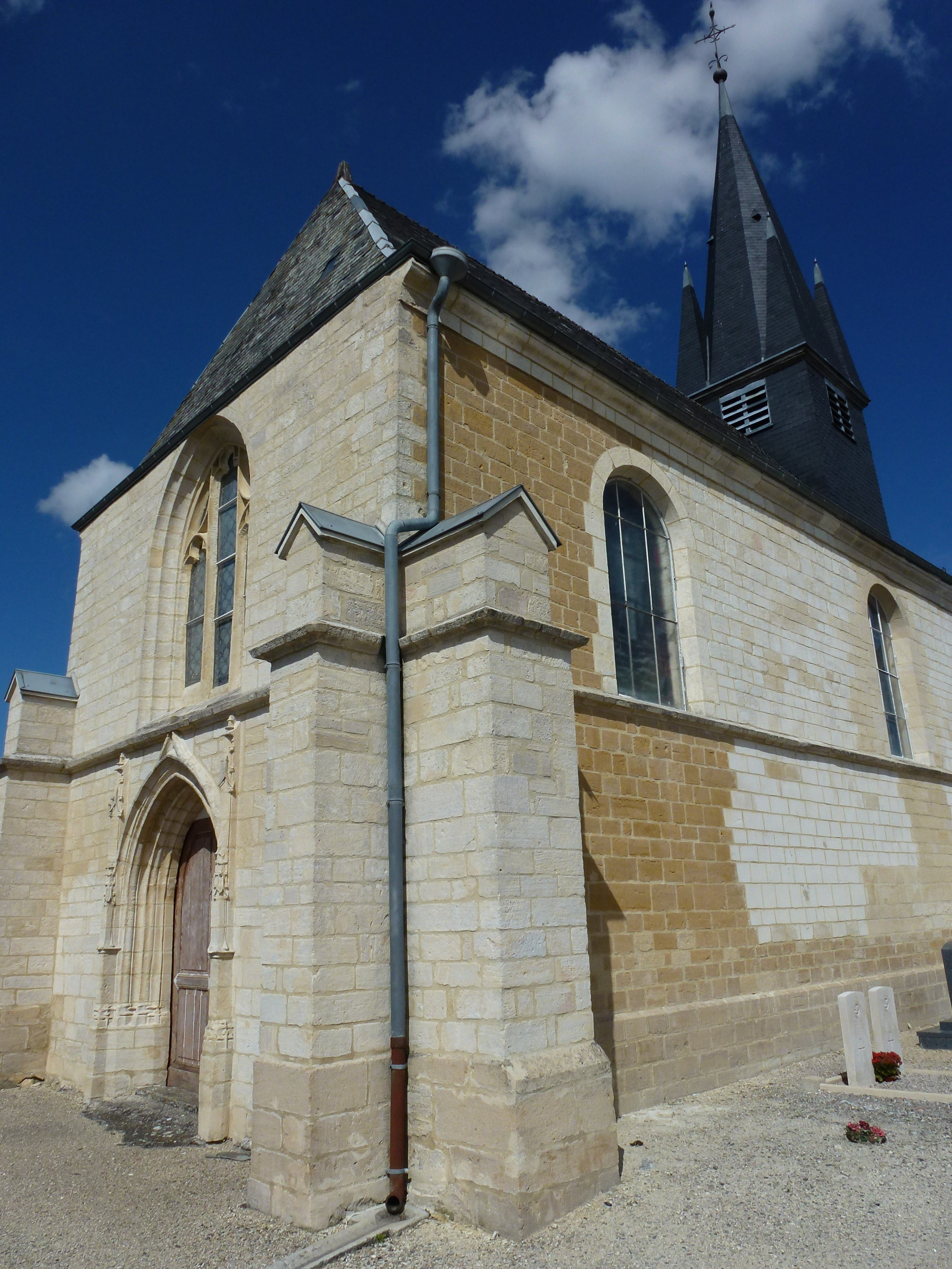 Sorbon (Ardennes) église